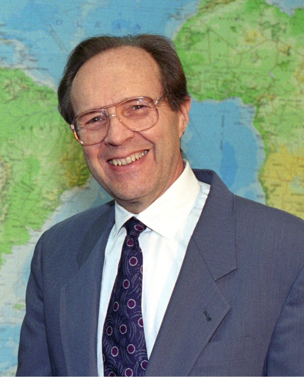 The Honorable William J. Perry (right), Deputy Secretary of Defense, poses for a picture with Toshio Nakayama (中山利生), Japanese Minister of Defense, at the Pentagon, Washington, D.C., on May 4, 1993. OSD Package No. A07D-00201 (DOD Photo by Helene C. Stikkel) (Released) (original text)